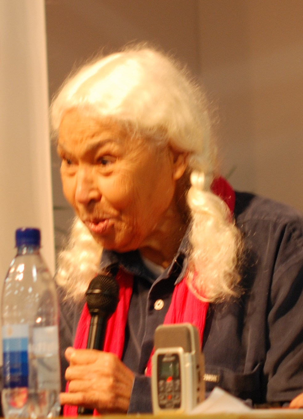 Egyptian writer Nawâl El Saadâwi at the Göteborg Book Fair 2010